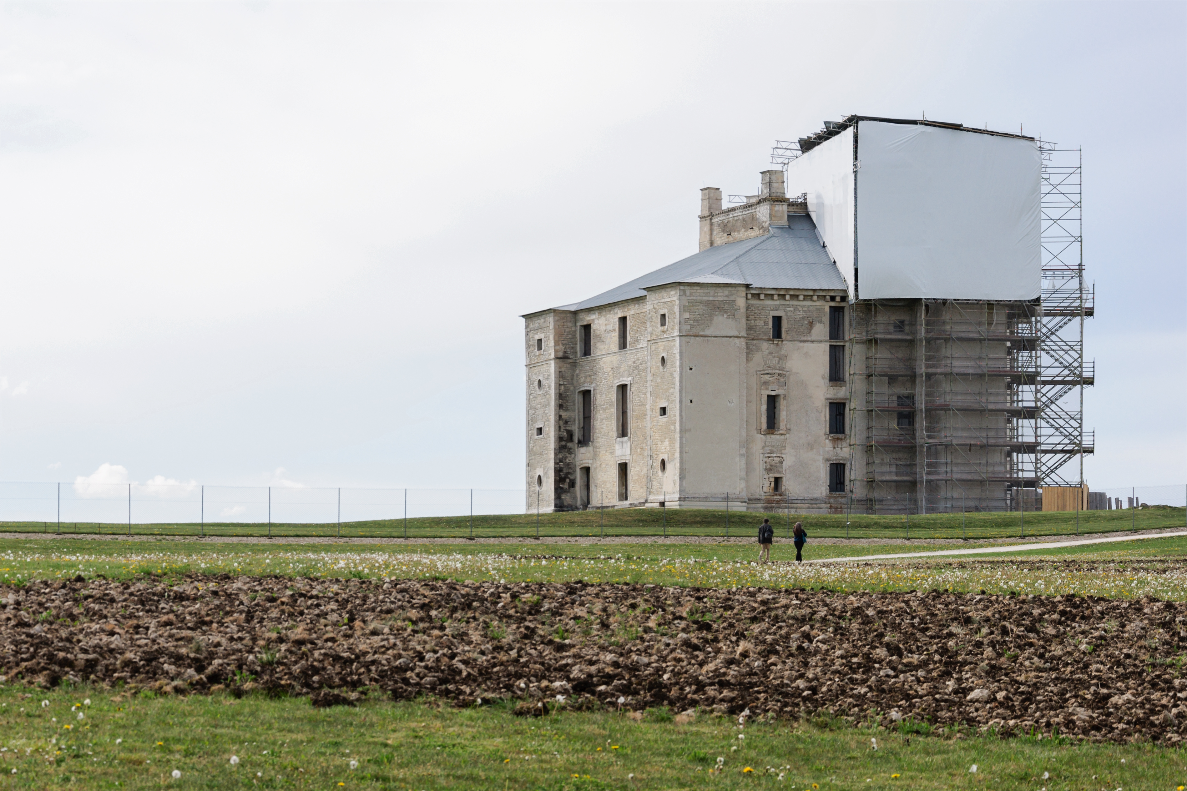 The Château de Maulnes in Cruzy-le-Châtel, Burgundy, France, being restored.